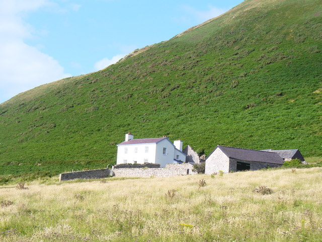 The Old Rectory Landmark white house on a raised beach about 25 feet above Rhossili Bay. In the background are the bracken- and grass-covered slopes of Rhossili Down.